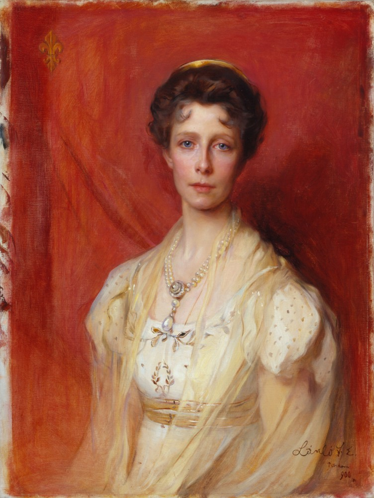 Fürstin Maria Teresa von Hohenzollern, née Princess Bourbon-Two Sicilies